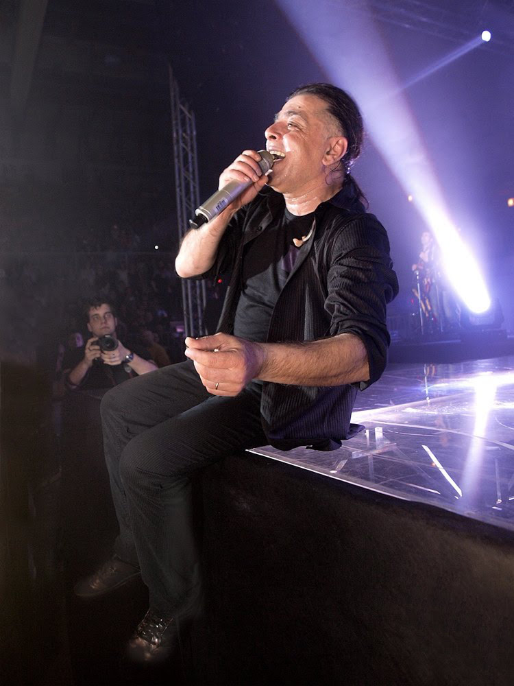 Parni Valjak concert in Maribor 2010